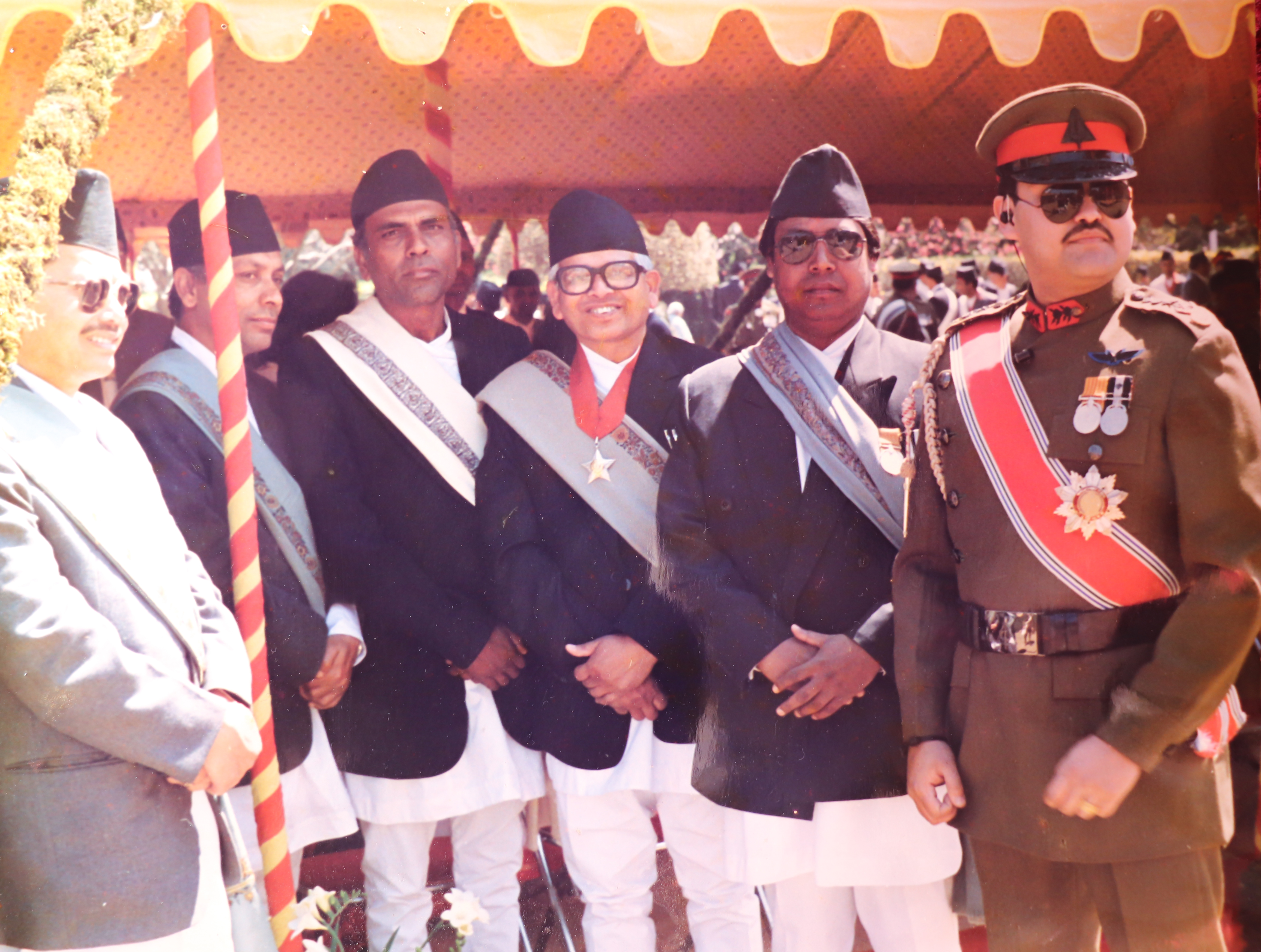 Purna Nepali with Crown Prince Dependra Bikram Shah Dev